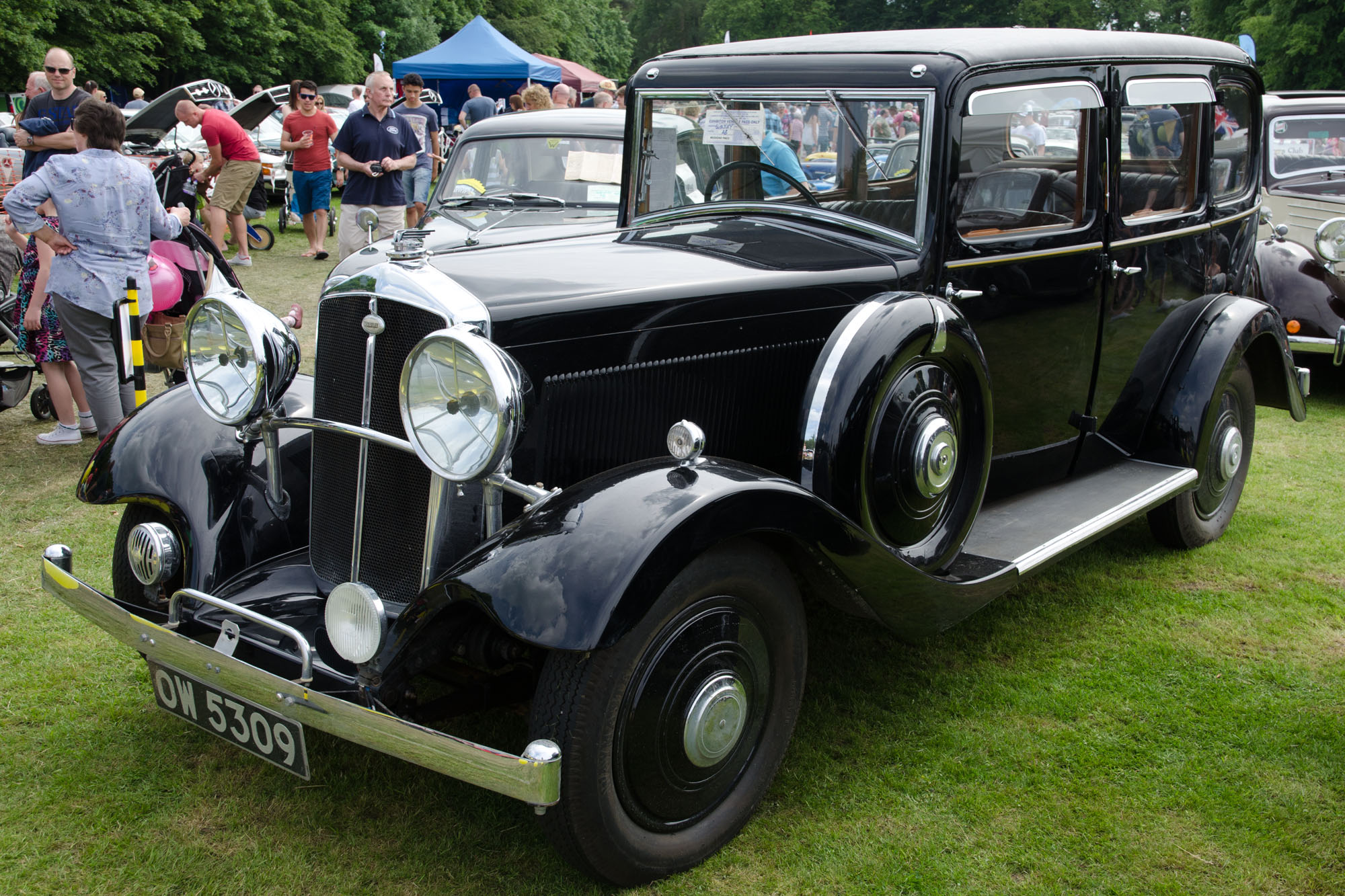 1934 Wolseley 21-60 County six-light saloon (DVLA) no record Tatton Park Classic Car Show